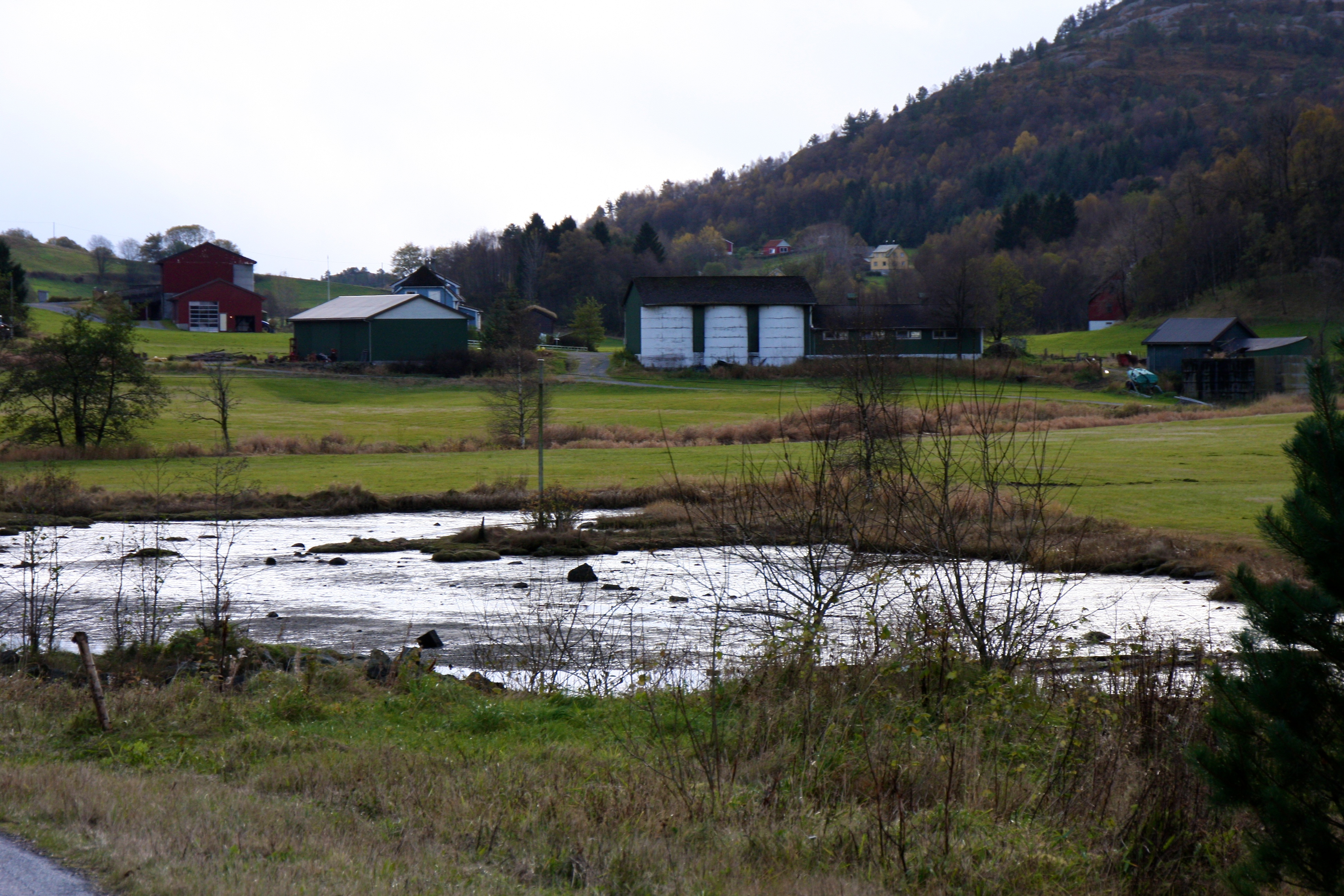 Gulen municipality, Norway.